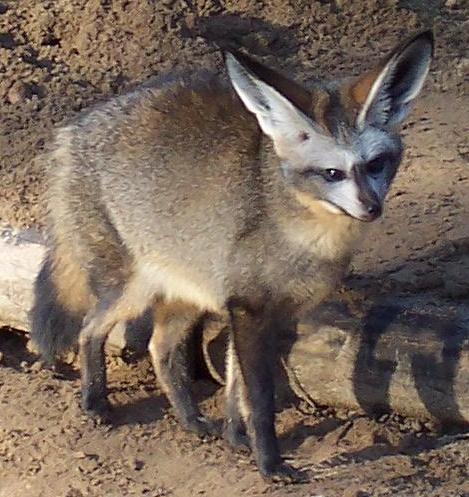 Bat-eared fox (Otocyon megalotis) in Zoo Krefeld, Krefeld, Germany (cropped version of Image:Löffelhund - Zoo Krefeld.JPG)